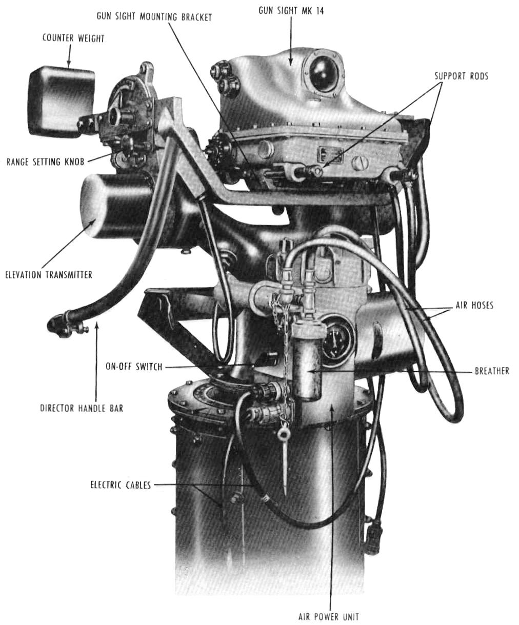 Mk51 Director. Cropped portion of image scanned from source.